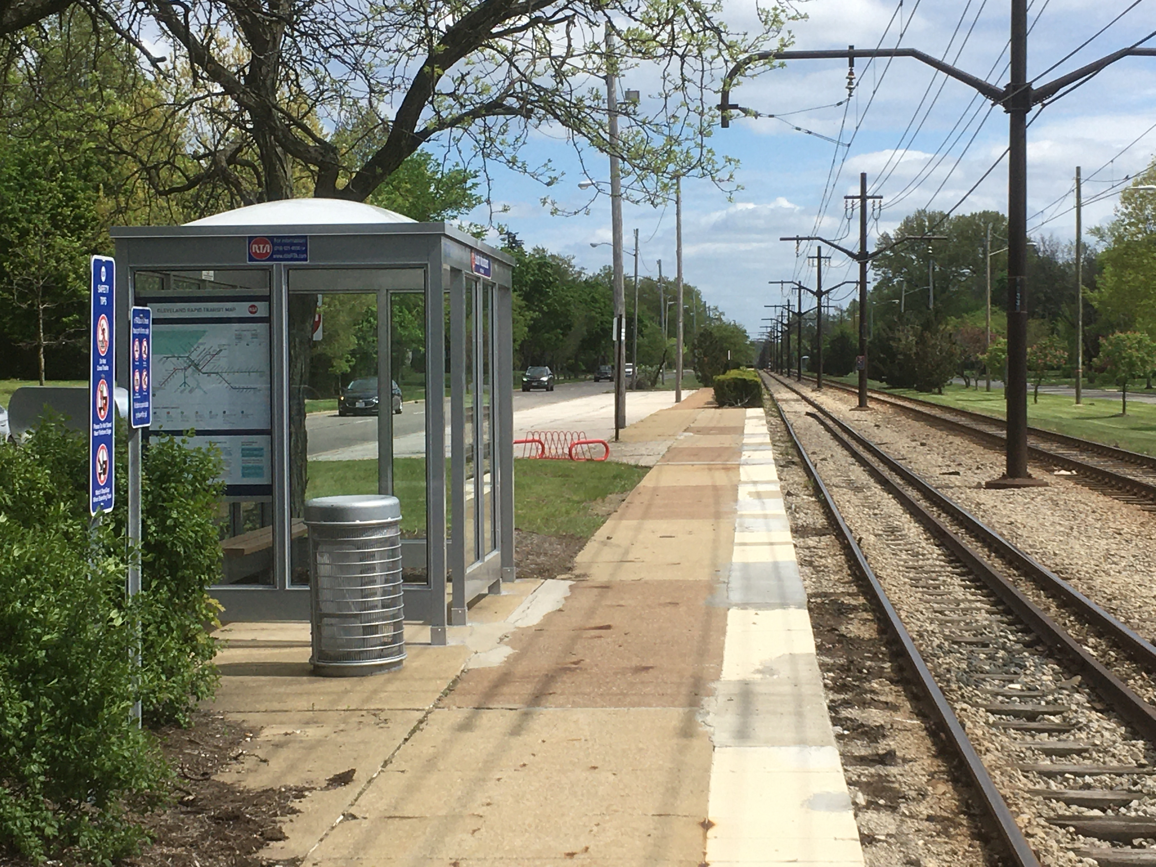 South Woodland, 2020